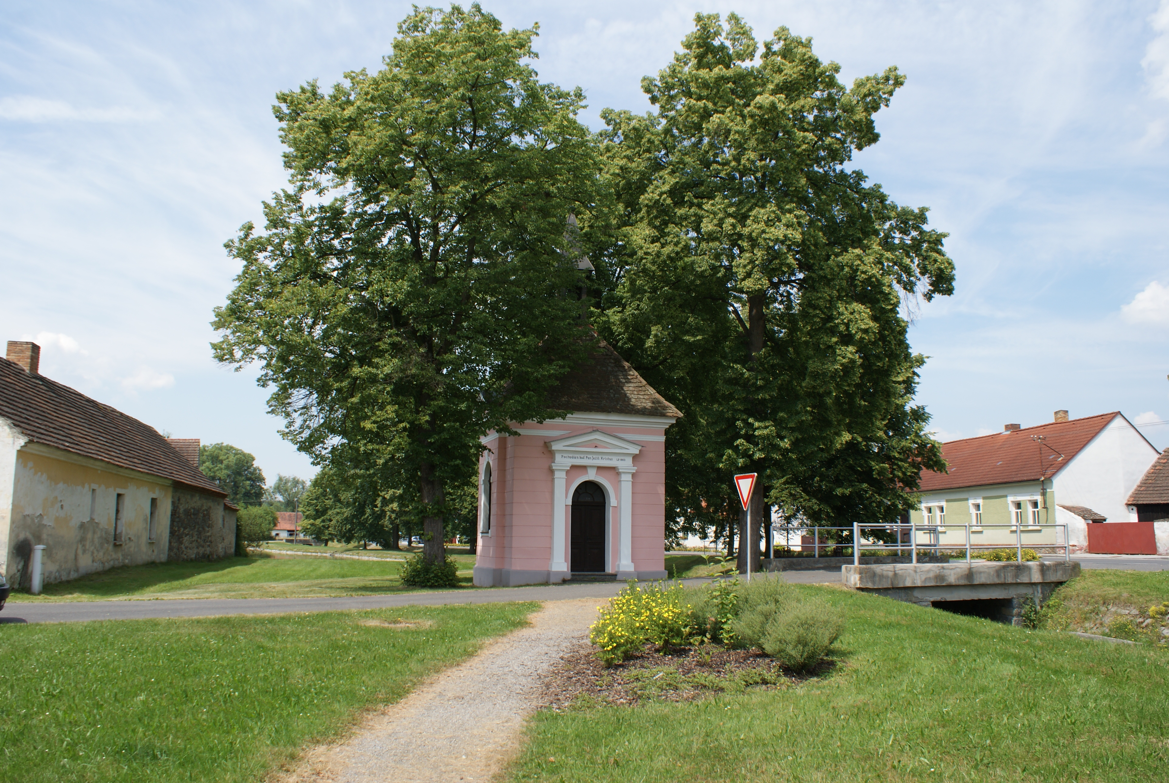 Tálín, a village in Písek district, Czech Republic, a chapel on the common. Česky: Tálín, okres Písek, kaplička na návsi